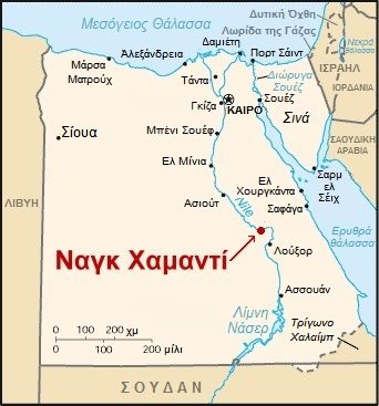 Nag Hammadi, on a PD map